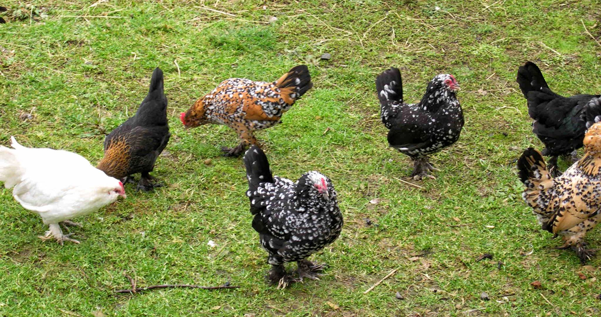 Belgian d'Uccles, colors, Millie Fleur, Black Mottled and White, with beards and muffs.